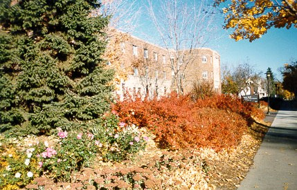 Drew Residence Hall at Hamline University, complete with fall foliage.